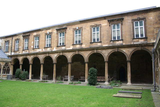 Wren Library. The medieval north arcade of the Cathedral cloister was pulled down in the early 15th century by the notorious Dean Mackworth to provide stone for his new stables and remained ruinous for over 200 years. In 1674 the new nine bay arcade of Doric columns was built in the Palladian style by Sir.Christopher Wren supporting the Cathedral library ... known as 'The Wren Library'.